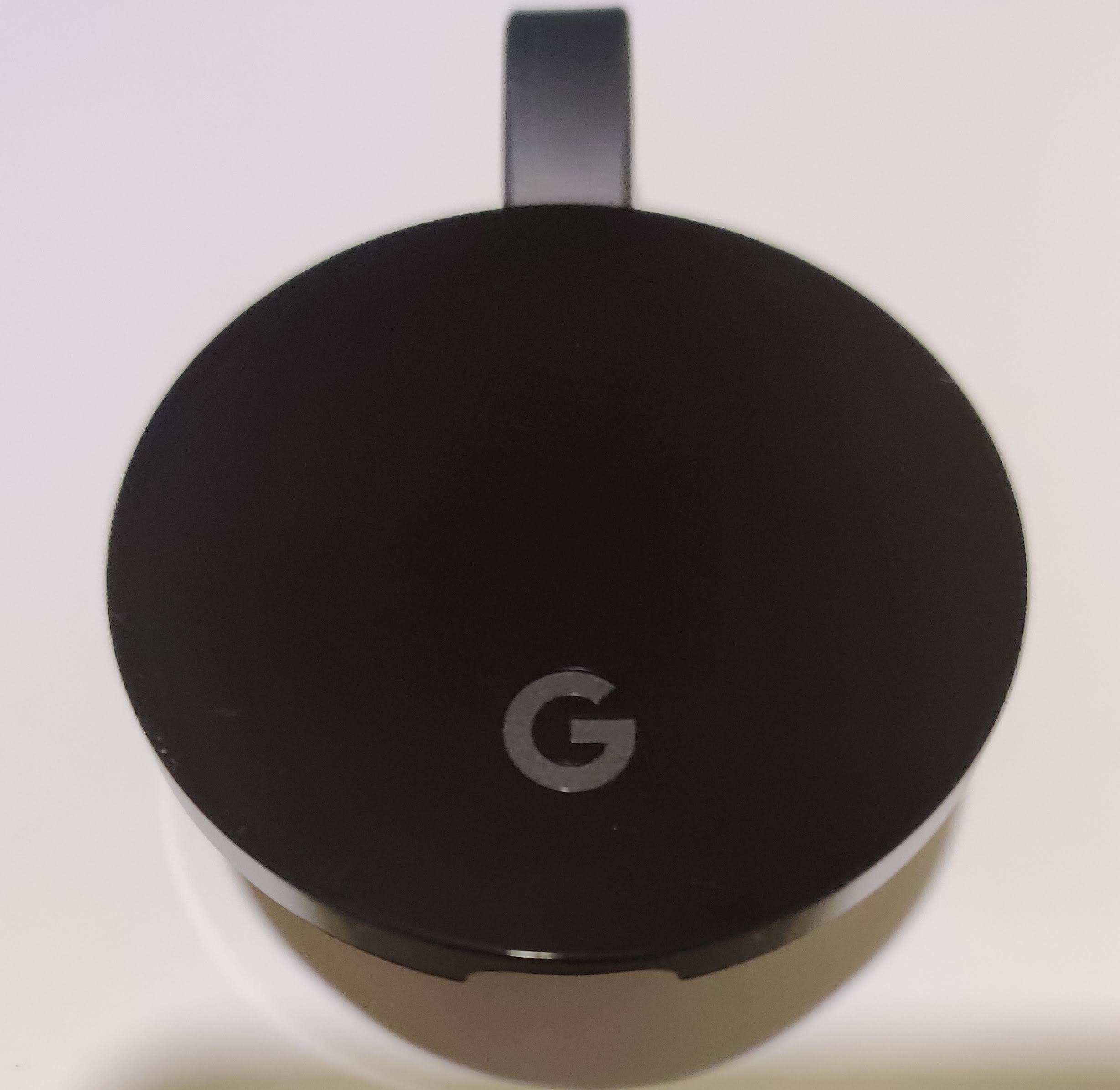 Google Chromecast Ultra